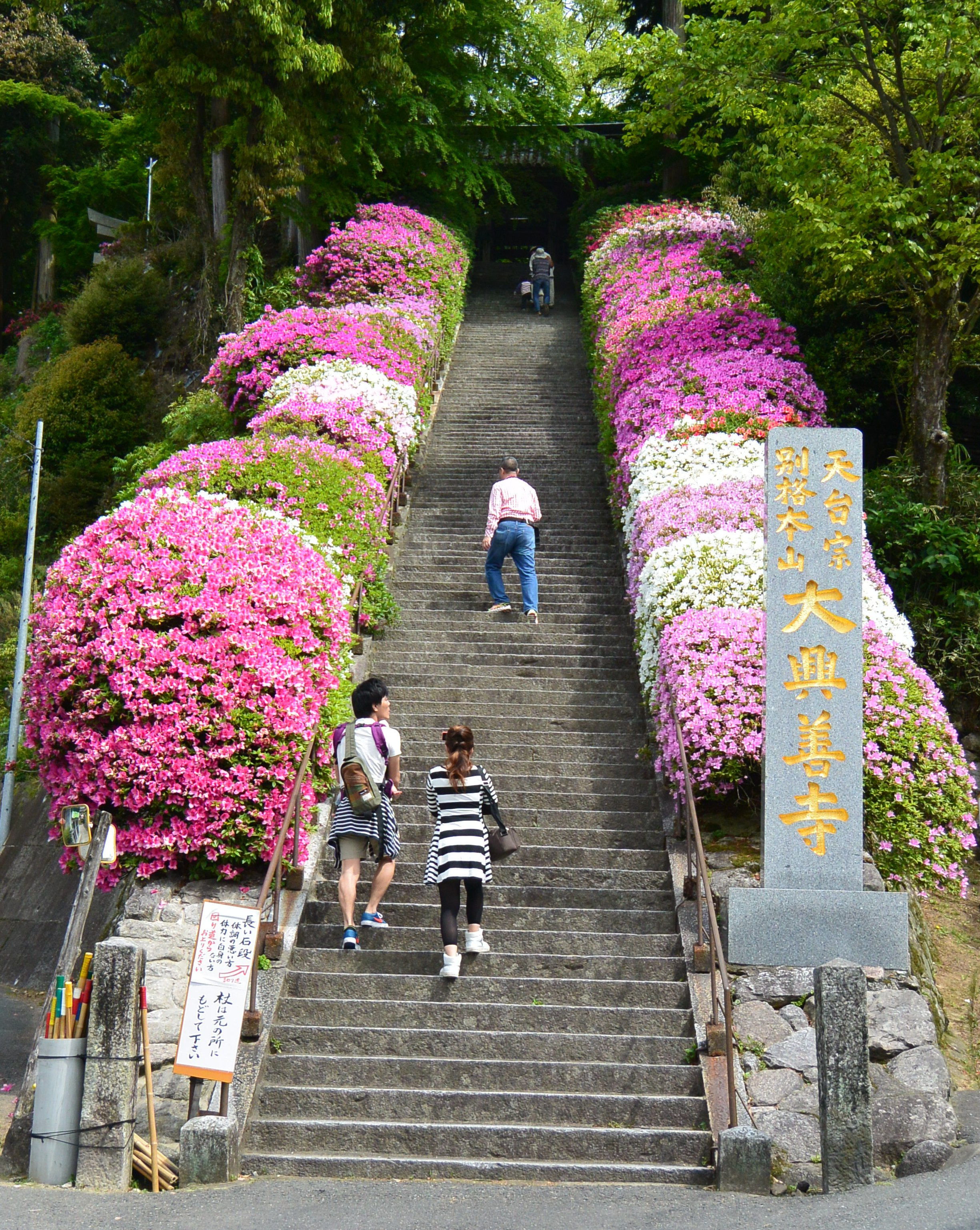 The Sando (visiting path) of Daikouzenji, Saga pref. Japan